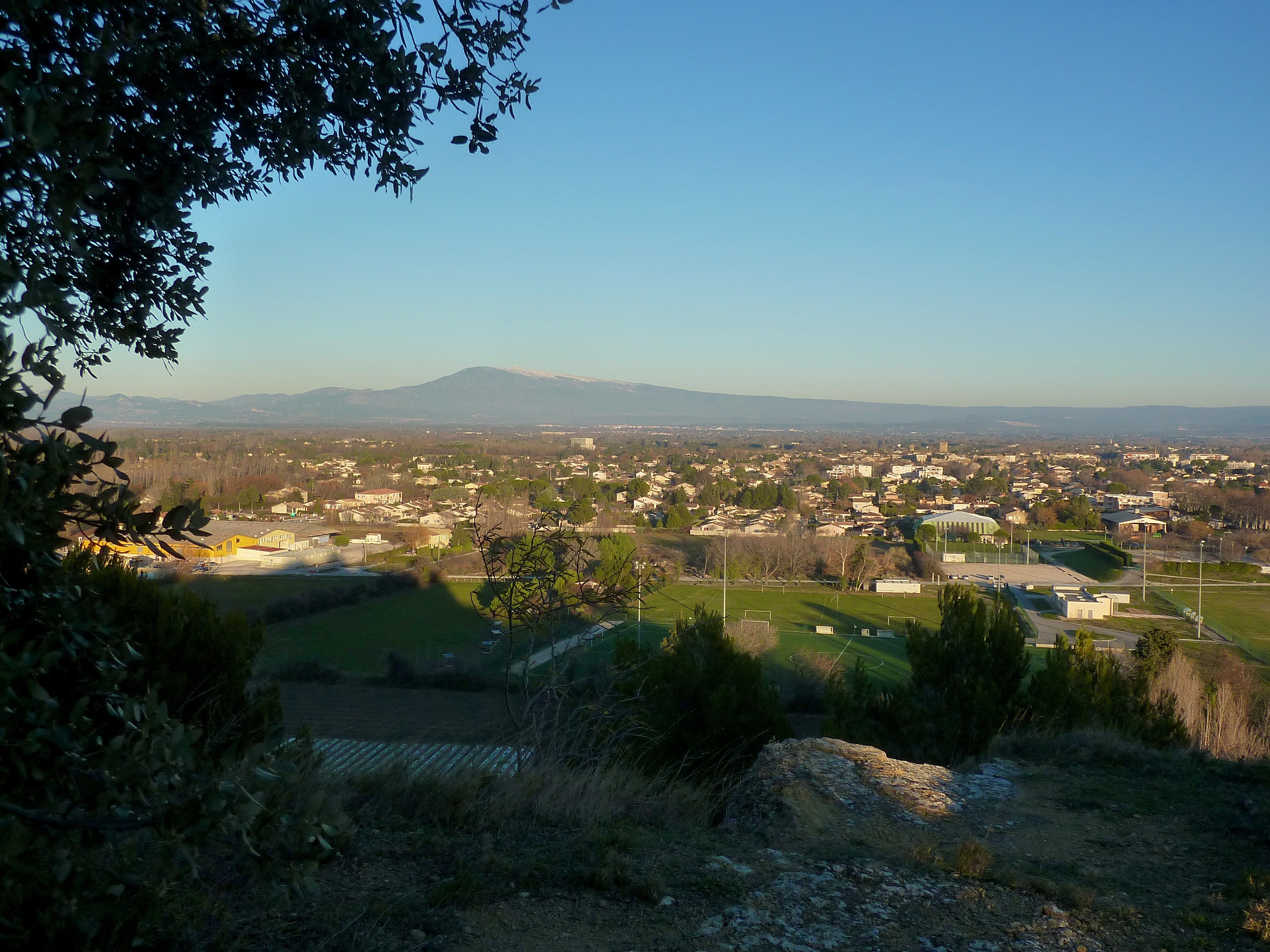 View of Entraigues-sur-la-Sorgue from Seve hill.